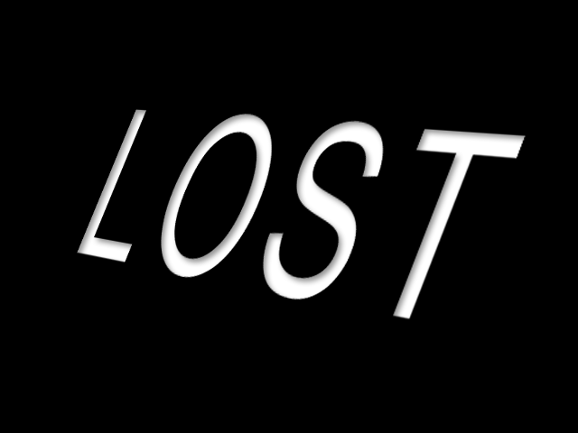 The LOST logo. It cannot be copyrighted, because it's just four white letters on a black background. Made by me using a simple graphics program.